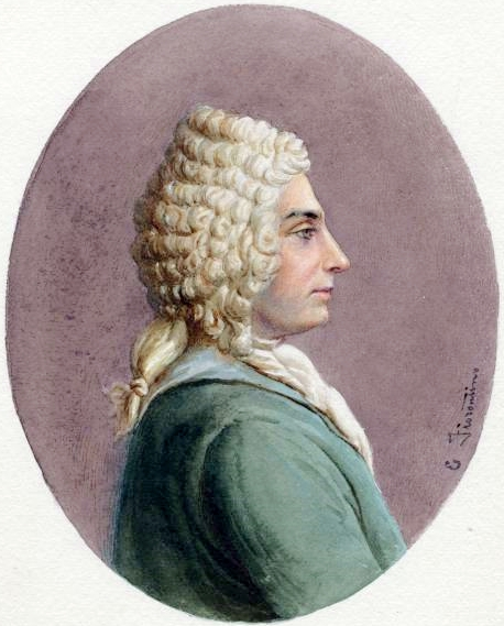 Italian violinist and composer Michele Mascitti (1664-1760). Water-colour painting by Marie-Anne Doublet (1677-1771) [after E. Fiorentino?].